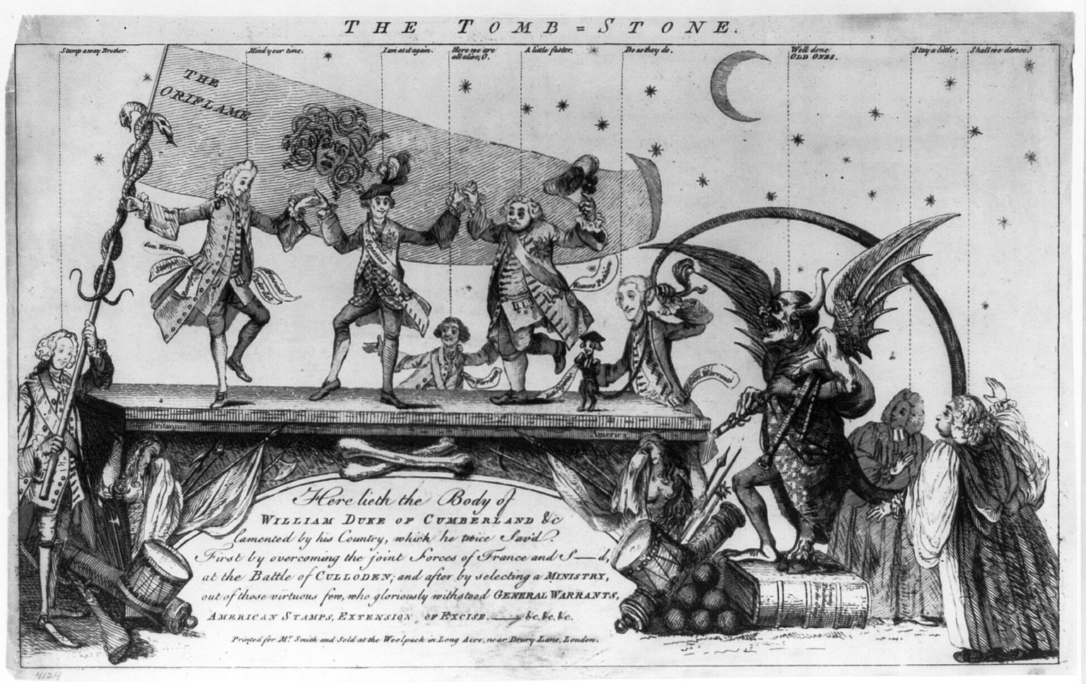 William Augustus, Duke of Cumberland. The tomb-stone. Print shows several men, George Grenville, Lord Bute, the Duke of Bedford, and, as a small dog wearing clerical robes, Dr. W. Scott, labeled "AntiSejanus", dancing on a sarcophagus with bas-reliefs of "Britannia" and "America" and bearing the inscription: "Here lieth the Body of William Duke of Cumberland &c lamented by his Country, which he twice Sav'd. First by overcoming ... and after by selecting a ministry, out of those virtuous few, who gloriously withstood GENERAL WARRANTS, AMERICAN STAMPS, EXTENSION OF EXCISE, --- &c, &c, &c. On the left stands Lord Sandwich (Jemmy Twitcher) holding a flagpole entwined with two snakes and flying a banner labeled "The Oriflame" [i.e., oriflamme] and on which appears the head of Medusa, perhaps suggesting that the ideal to aspire to is discord. Behind the sarcophagus stands the Earl of Halifax, and on the right stand, Earl Temple, who clutches in his left hand the tail of "AntiSejanus" and the tail of a Scottish devil standing next to him on a book labeled "Jemmy Twitcher's laws for the gang"; on the far right stand two members of the clergy. London : Printed for Mr. Smith and sold at the Woolpack in Long Acre, near Drury Lane, 1765 October. Repository: Library of Congress Prints and Photographs Division Washington, D.C.